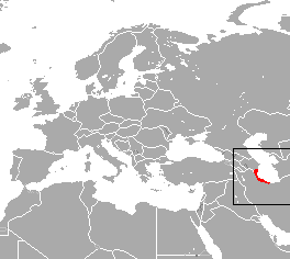 Caspian Shrew (Crocidura caspica) range